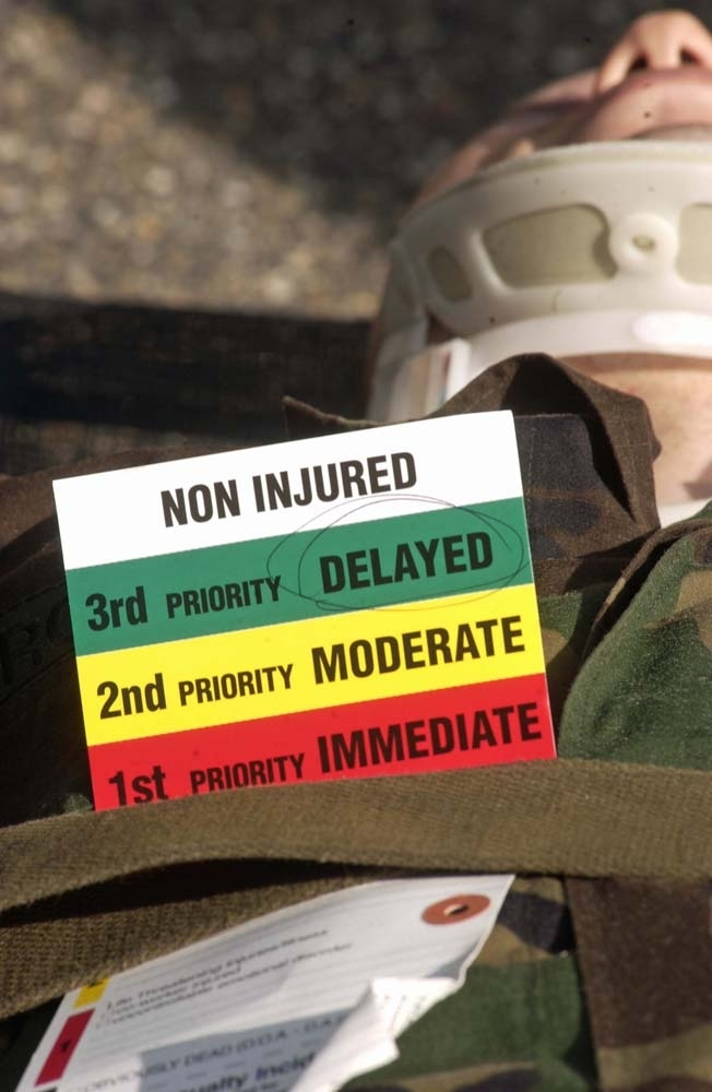 The "wounded" are classified based on emergency medical needs at the triage site established by the 435th Air Medical and Dental Squadron during the U.S. Army Garrison Kaiserslautern's Warrior Response 2008 force protection exercise held Aug. 9, 2008 in Germany